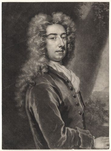 Spencer Compton, 1st Earl of Wilmington (1673-1743)